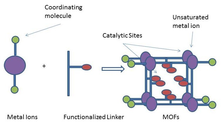 MOF catalyst